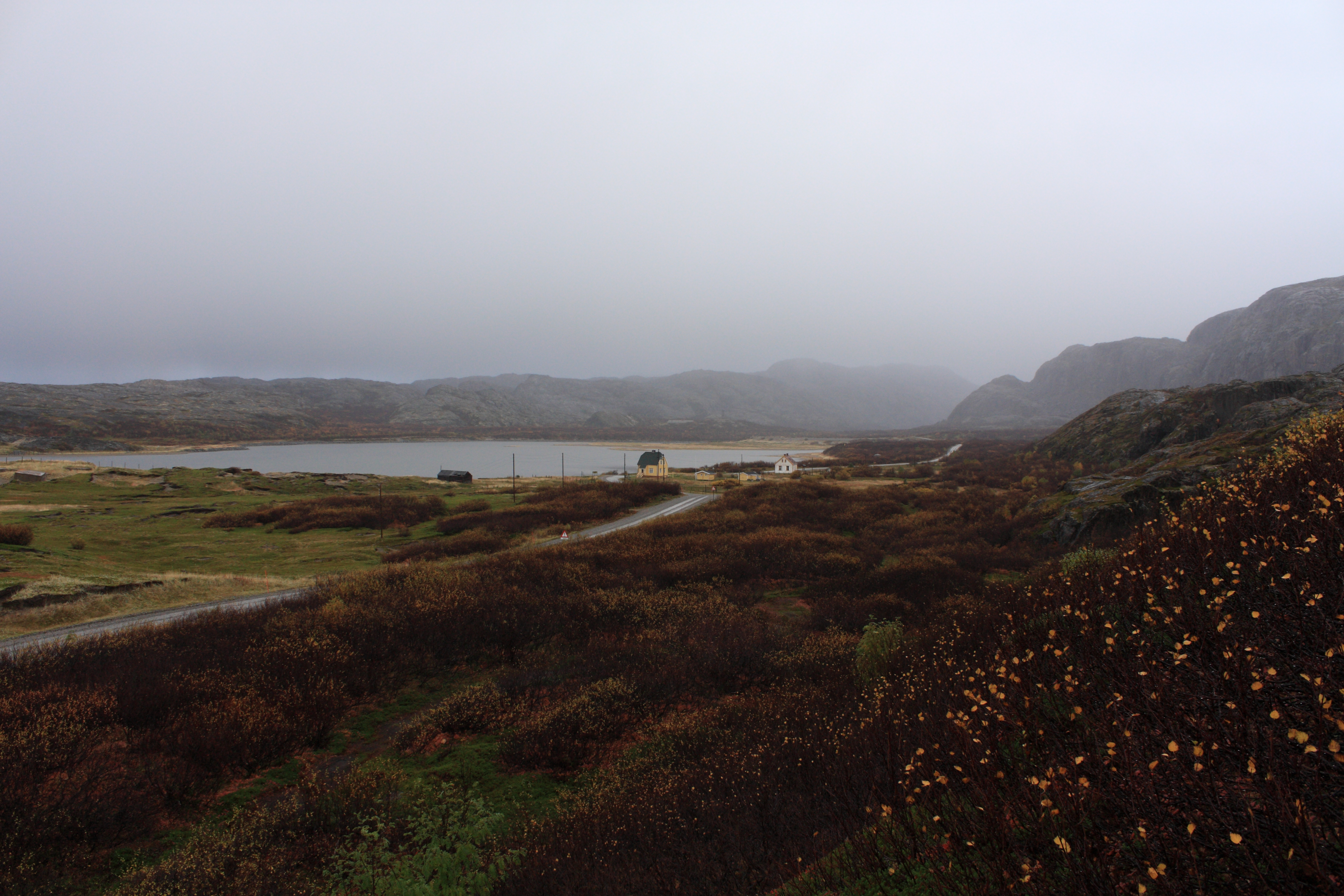 Grense Jakobselv village and river in Sør-Varanger, Finnmark, Norway, next to the Russian border. The photo is taken towards South - the left side of the river belongs to Russia and the right side to Norway.